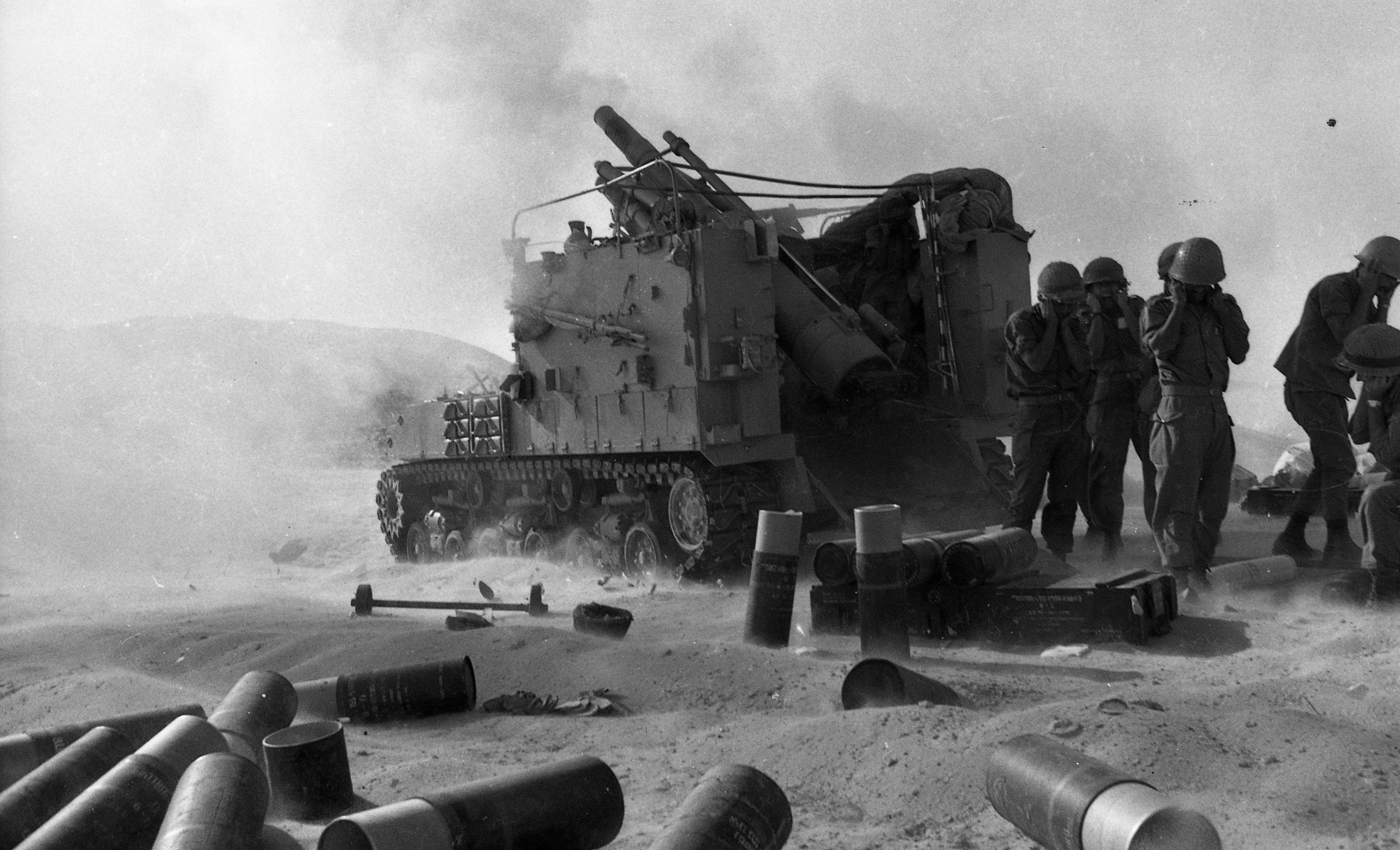 IDF in the Suez Canal.